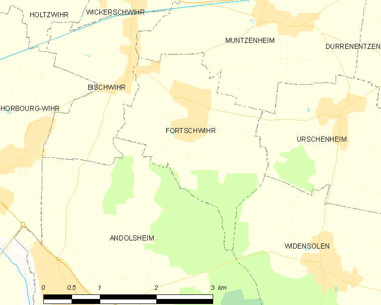 Map of French municipality